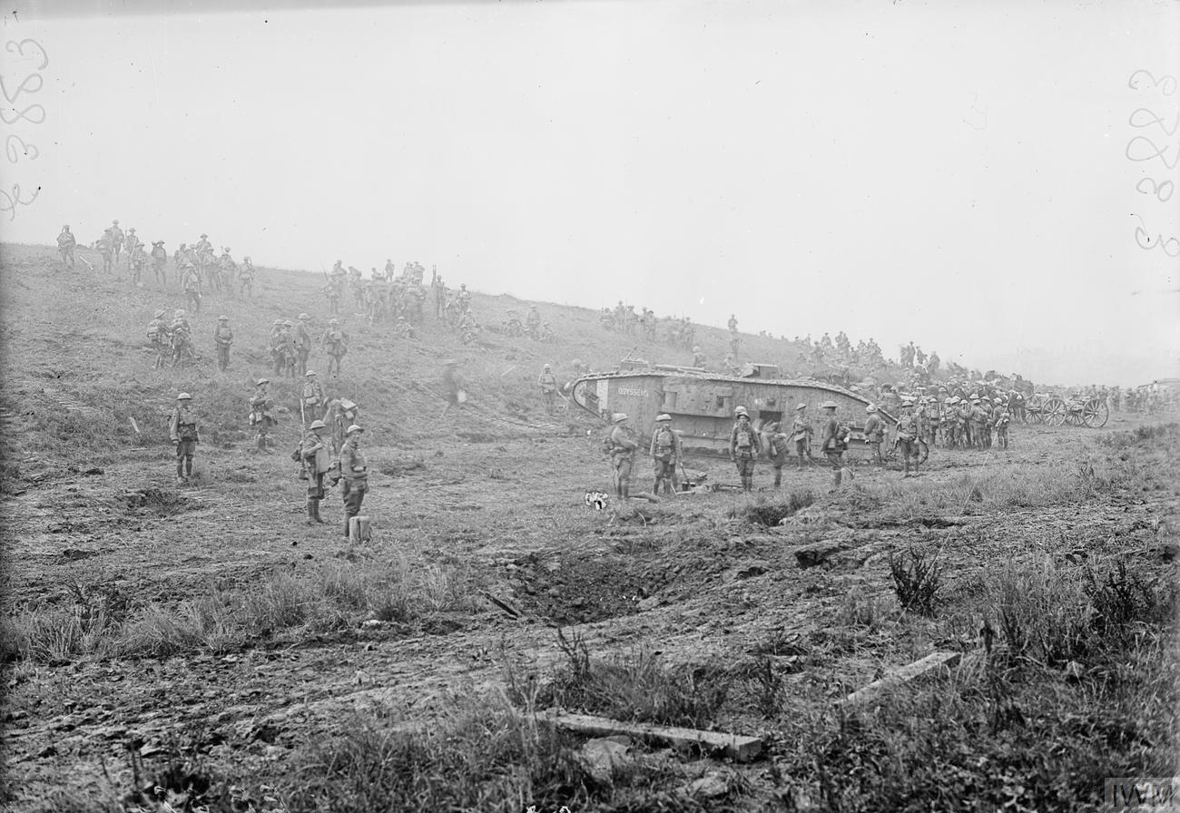 Soldiers from the 5th Brigade, AIF, with tanks around Picardie, France, 8 August 1918